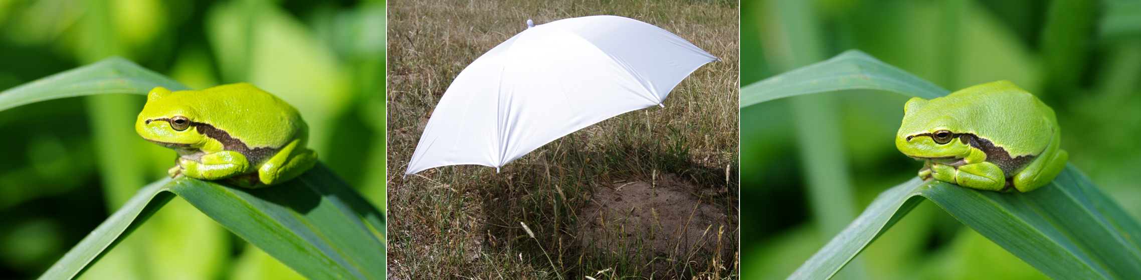 Demonstration of effects of a light diffuser in close-up photography. Left a young tree frog (Hyla arborea) sitting in direct sunlight on sedge leaves. With the help of a diffuser (in this case a white fabric-covered "studio umbrella"; middle image) then the situation was shaded artificially. The result is shown in the right image: The previously hard light and shadow contrasts were alleviated, "blown-out" highlight areas avoided, harsh shadows eliminated and the background was calmed a bit. A similar effect would have had a bright cloud in front of the sun.